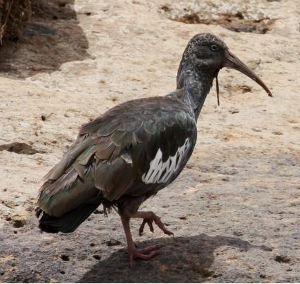 Wattled ibis - Bostrychia carunculata. Farta, Ethiopia.